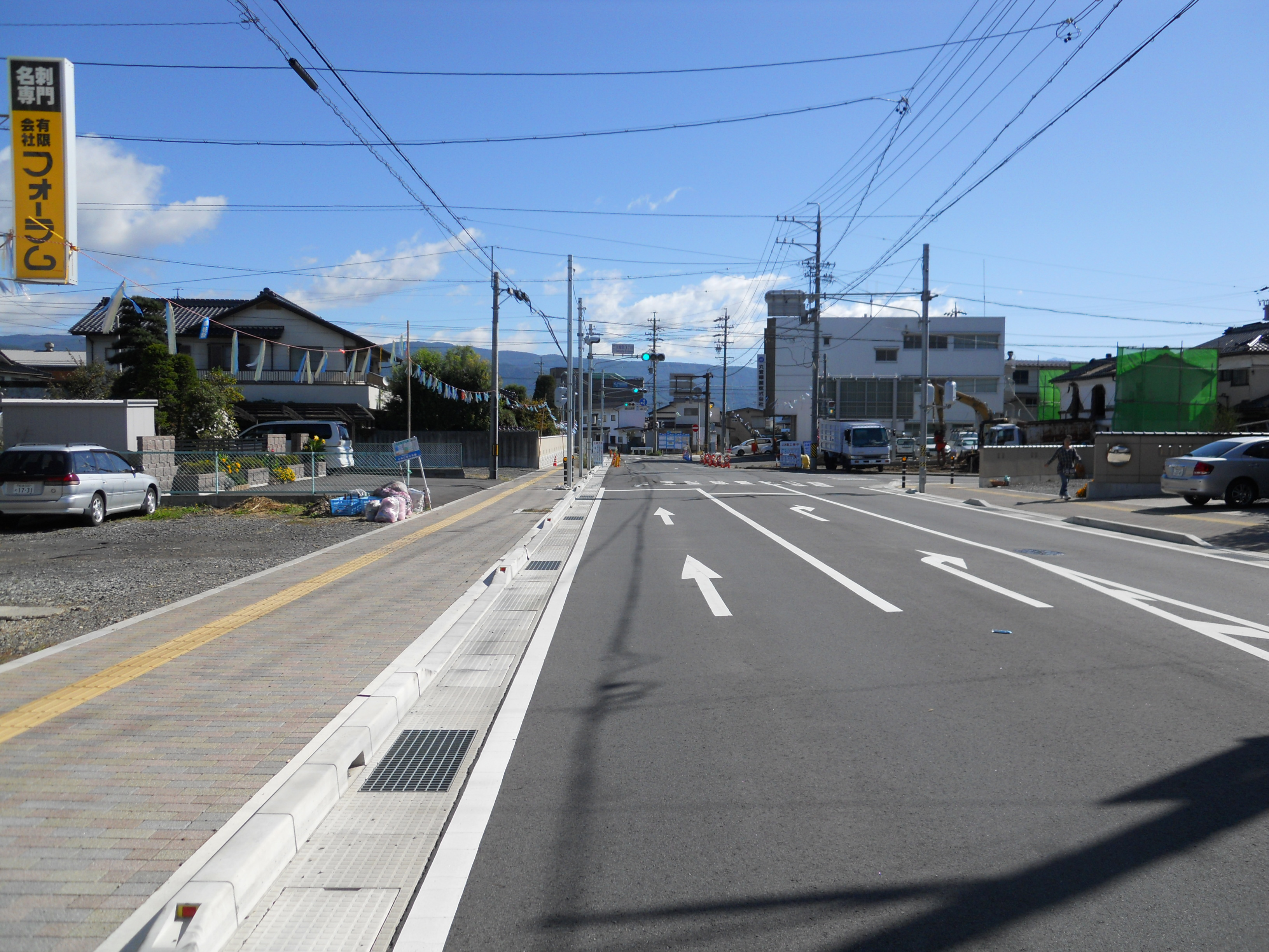 The Tenryu 3-chome Intersection in Okaya City, Nagano Prefecture, Japan